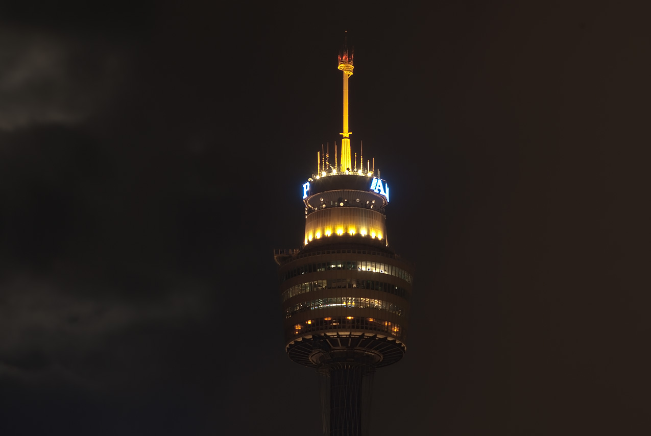 This is a HDR image of Centerpoint Tower within Sydney. Created using 6 images, I used a 300mm zoom lens to zoom in and manual focus. It was cloudy and the full moon was just of the scene to the left. The sky created a nice background with the cloud and the moonlight.